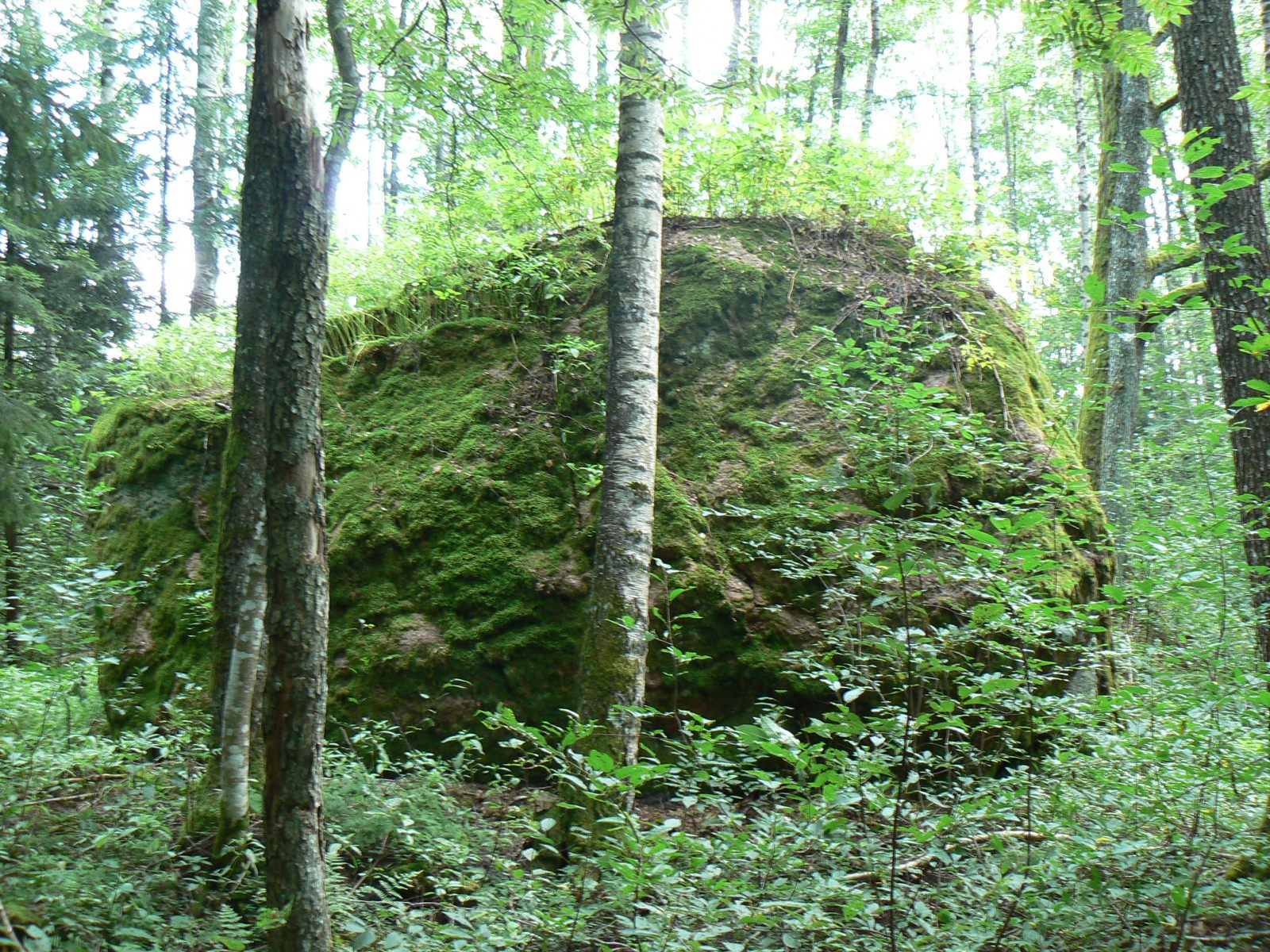 Luubakivi glacial erratic rock, in forest of Estonia